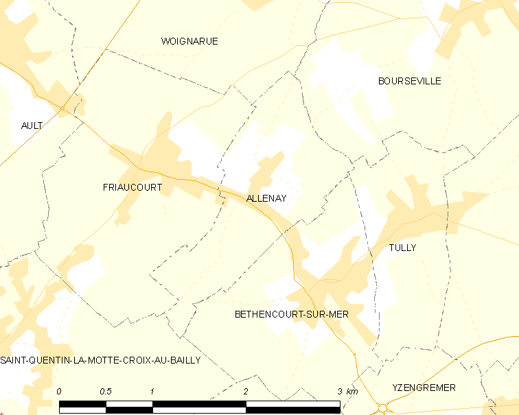 Map of French municipality Allenay